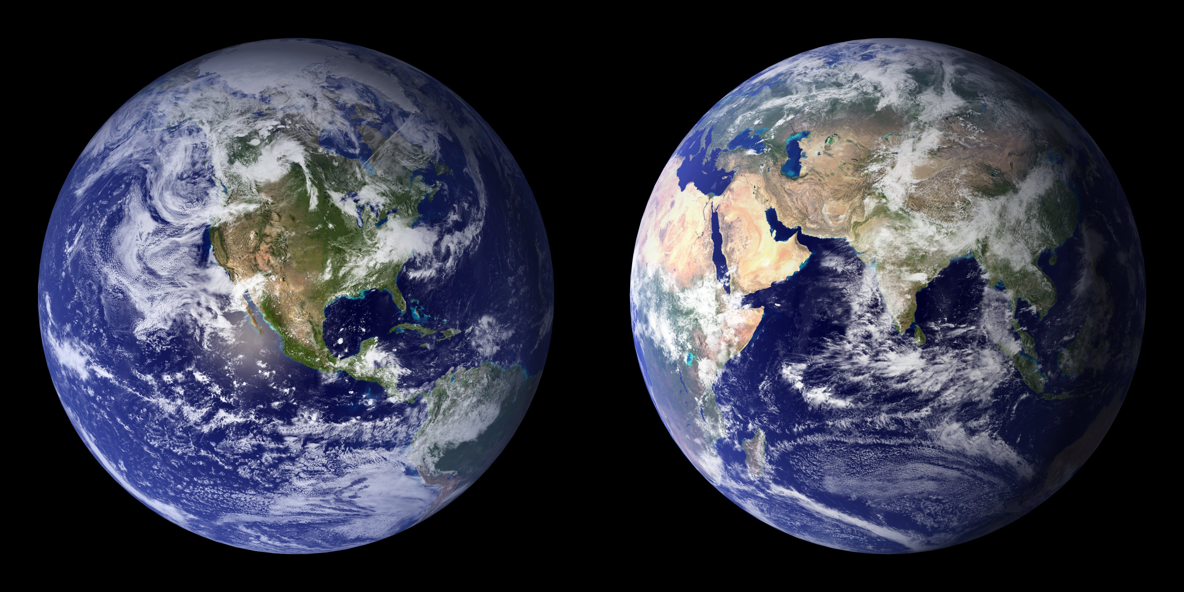 NASA created these two images to exhibit high-resolution global composites of Moderate Resolution Imaging Spectroradiometer (MODIS) data. The land surface data were acquired from June through September of 2001. The clouds were acquired on two separate days--July 29, 2001, for the northern hemisphere and November 16, 2001 for the southern hemisphere. The images were rendered in Electric Image and composited in Adobe Photoshop in late January, 2002. For more information and access to high resolution texture maps, visit: The Blue Marble Western Hemisphere (2048 by 2048 JPEG) Eastern Hemisphere (2048 by 2048 JPEG) Originally uploaded to english wikipedia 14 March 2004 by Seth Ilys. High resolution version made by User:Apoc2400 from globe_west_2048.tif and globe_east_2048.tif.